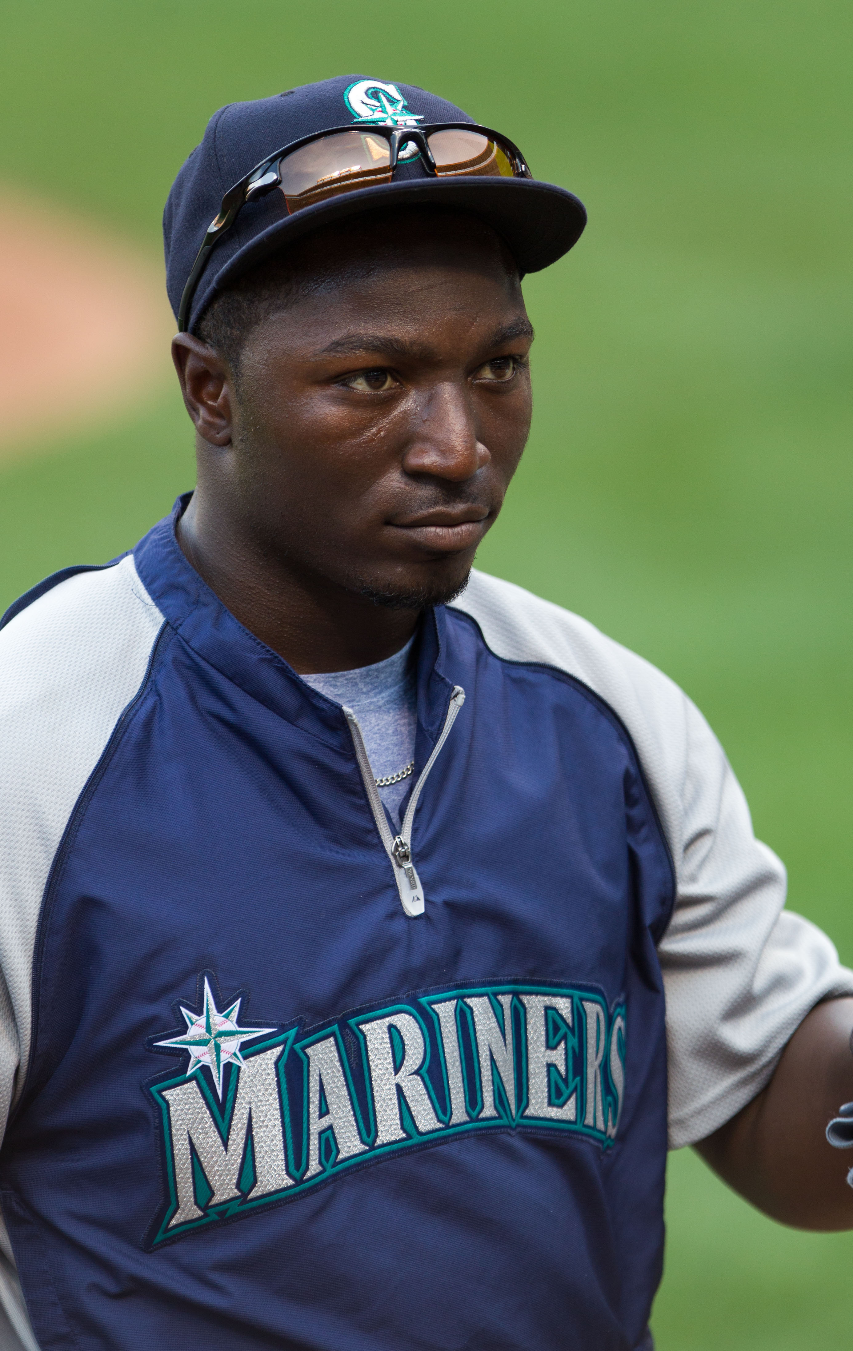 Mariners at Orioles August 6, 2012Trayvon Robinson